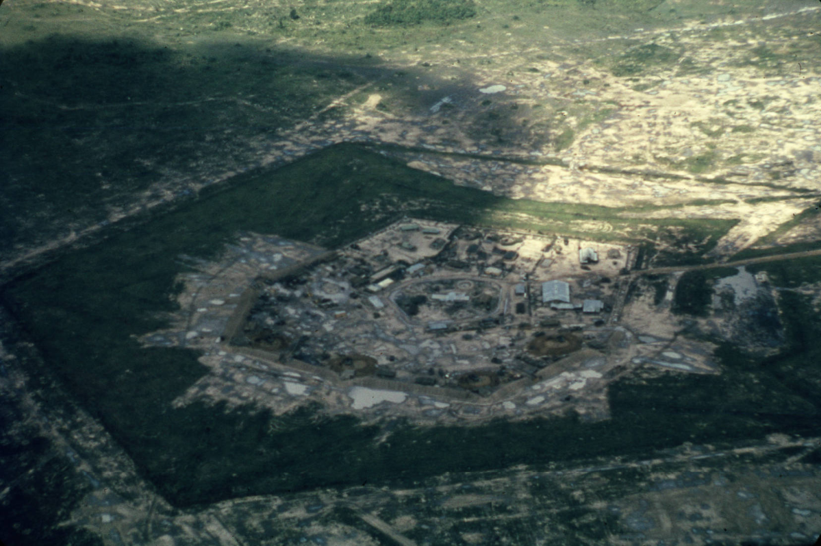 Special Forces camp at Suoi Da west of Tay Ninh